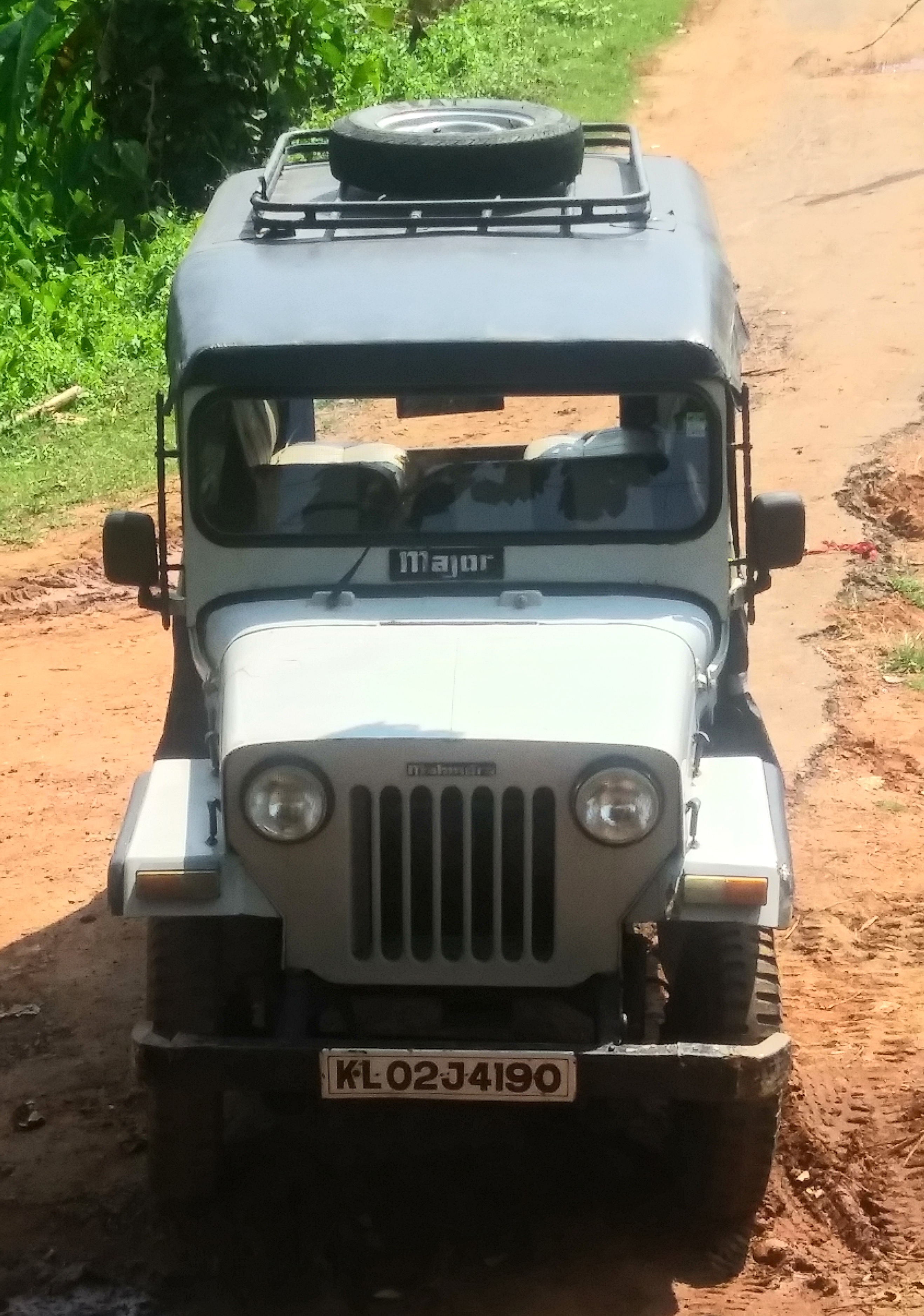 A Mahindra jeep (Model CL 550 MDI). Photographed near Changanasseri, Kerala.